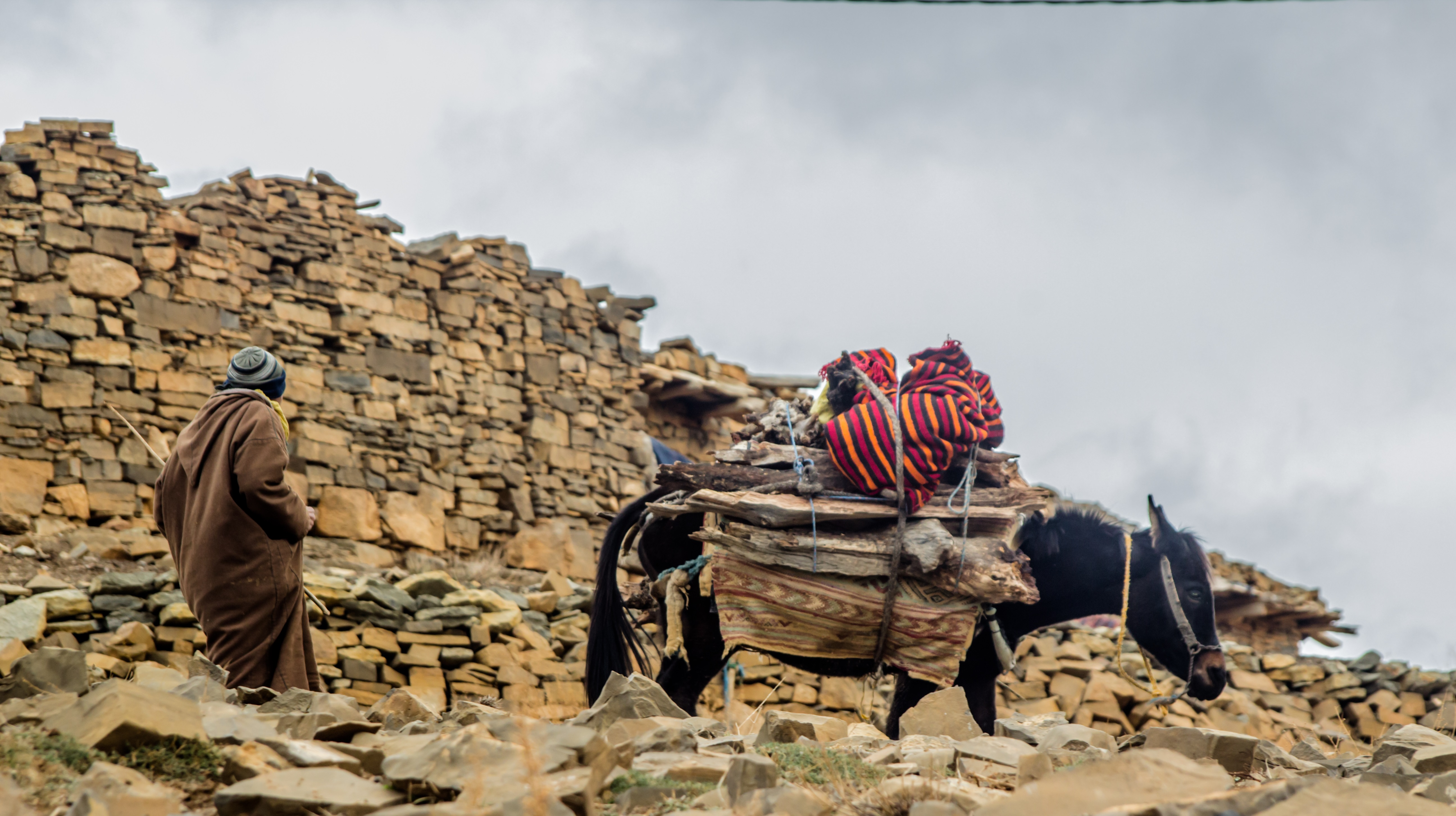 To LAMSAREH Village - Boulmane Morocco bu Brahim FARAJI This is an image with the theme "Africa on the Move or Transport" from: Morocco